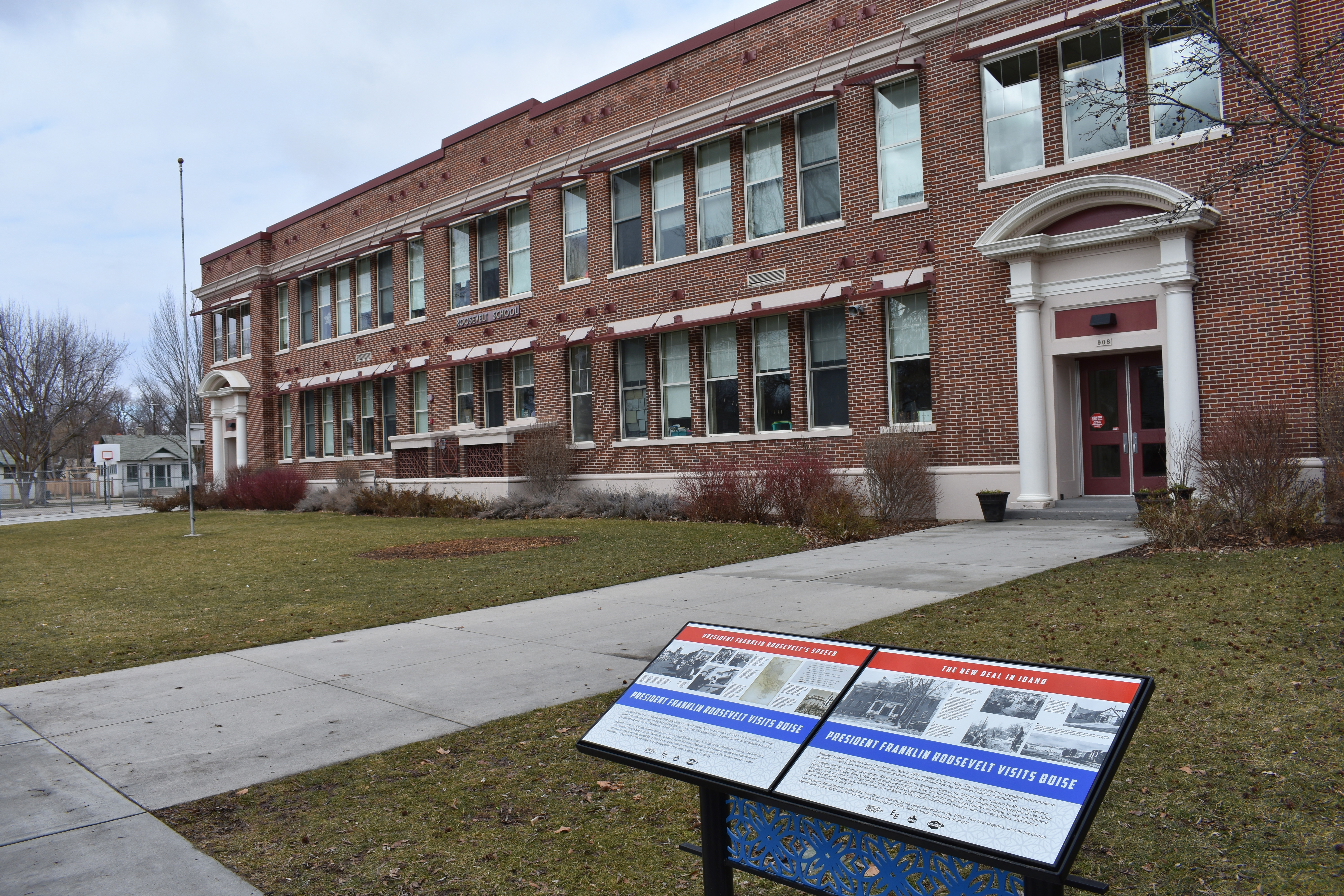 Roosevelt School (1919) in Boise, Idaho, was designed by Wayland & Fennel and is listed on the National Register of Historic Places.